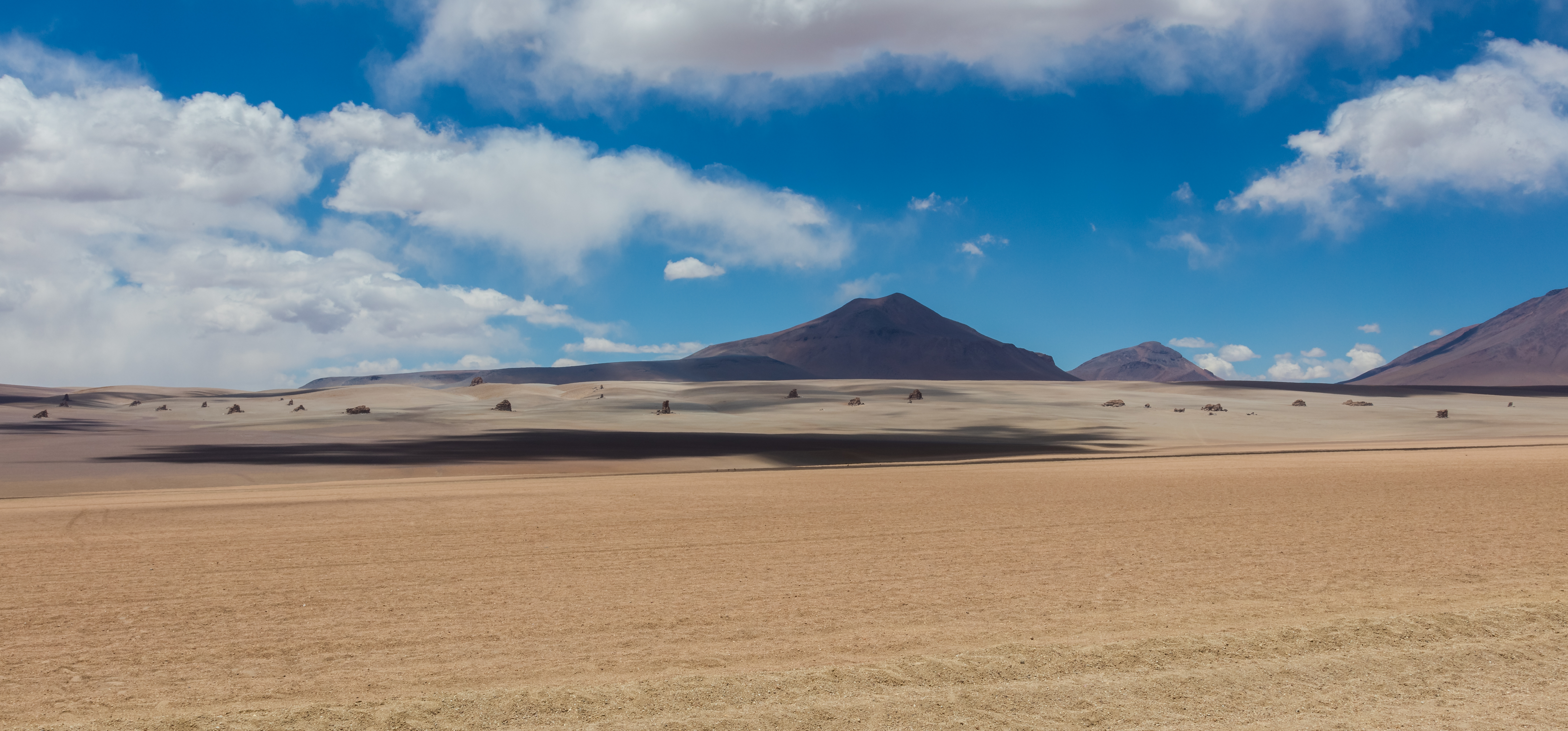 Dalí Desert, Bolivia